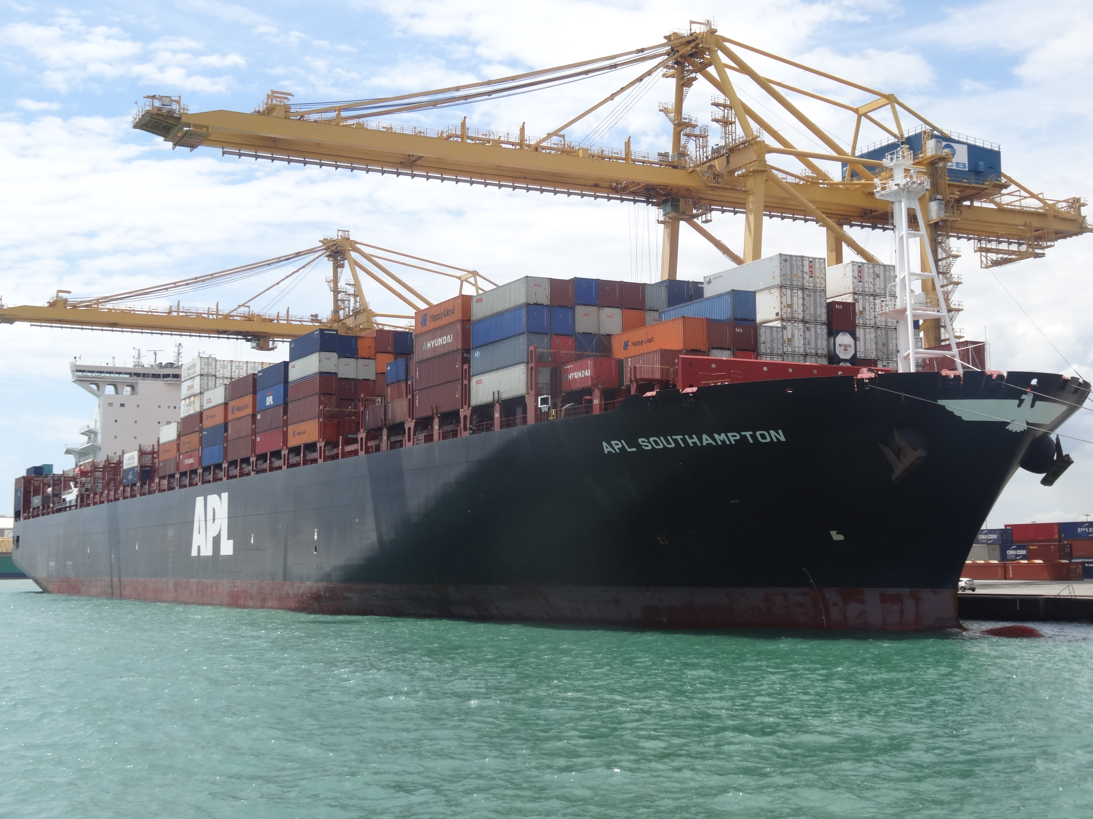 Port of Barcelona seen from a Port Authority vessel trip. May 2016.